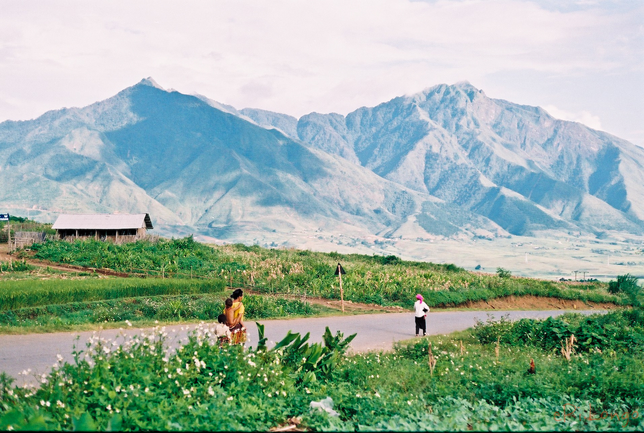 Mountains in Than Uyên District, Sơn La Province, Việt Nam